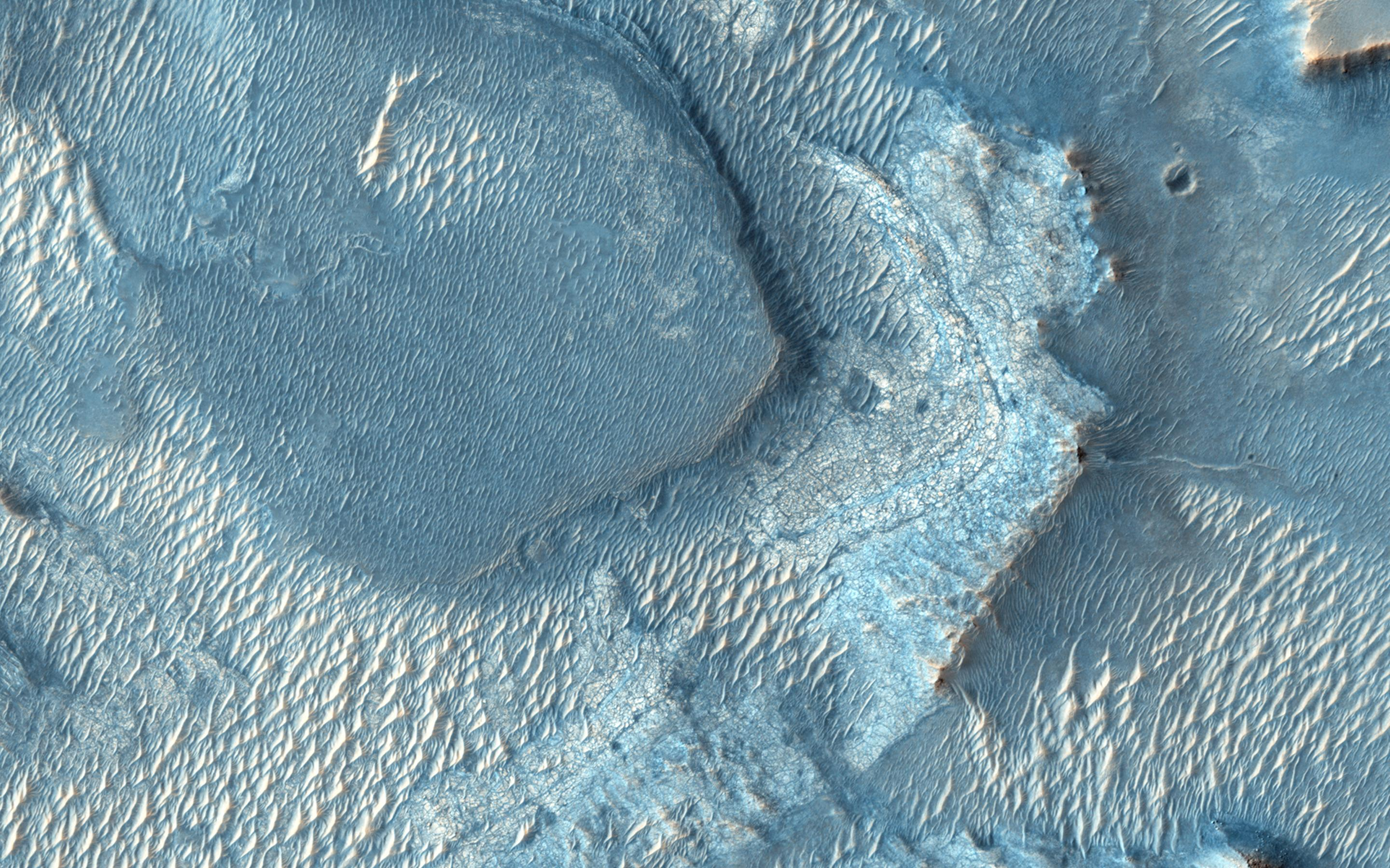 In a Context Camera (CTX) image, there is a large angular fragment that appears to have light and dark-toned bands. HiRISE images of similar fragments nearby also show this banding, and the resolution of our camera may help determine what these layers are. Nili Fossae was once considered a potential landing spot for the Mars Science Laboratory, and has one of the largest, most diverse exposures of clay minerals. Clay minerals contain water in their mineral structure and may preserve organic materials. HiRISE is one of six instruments on NASA's Mars Reconnaissance Orbiter. The University of Arizona, Tucson, operates HiRISE, which was built by Ball Aerospace & Technologies Corp., Boulder, Colo. NASA's Jet Propulsion Laboratory, a division of the California Institute of Technology in Pasadena, manages the Mars Reconnaissance Orbiter Project for NASA's Science Mission Directorate, Washington.